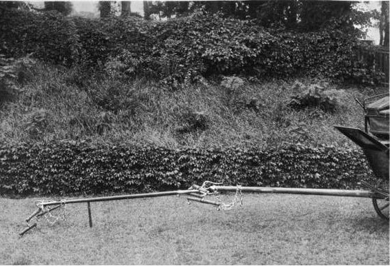 A photo of a six-horse harness